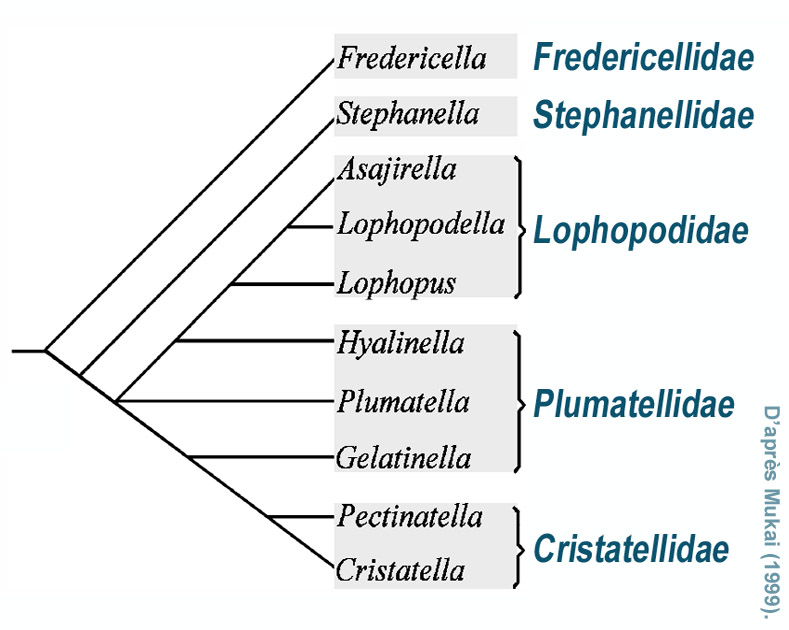 Phylogeny of the Phylactolaemata, a proposed by Muka (H Muka 1999. Comparative morphological studies on the statoblasts of lower phylactolaemate bryozoans, with discussion on the systematics of Phylactolaemata. Science Reports of the Faculty of Education Gunma University 46: 51–91).